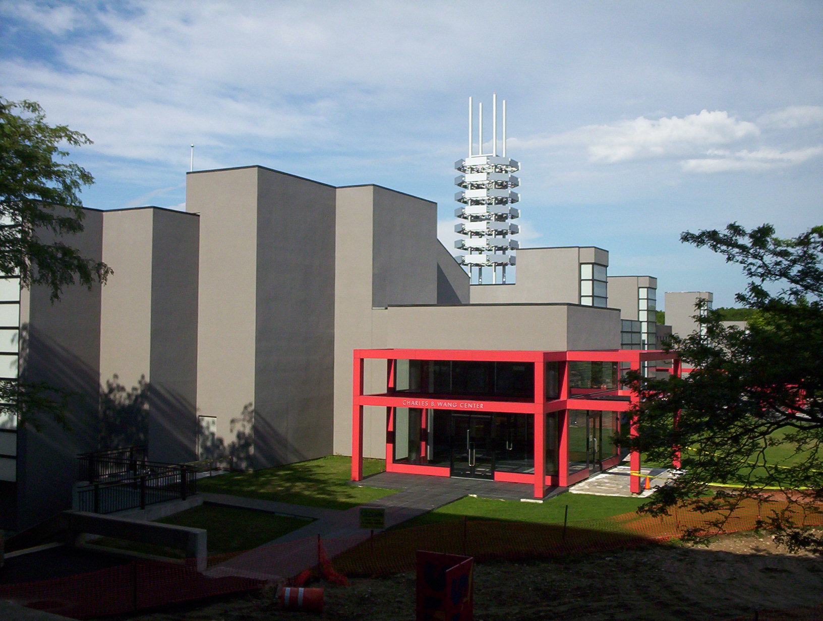 A picture of the Charles B. Wang Asian American Center at the State University of New York at Stony Brook, taken in July 2005 by Flcelloguy with a Kodak Digital Camera.